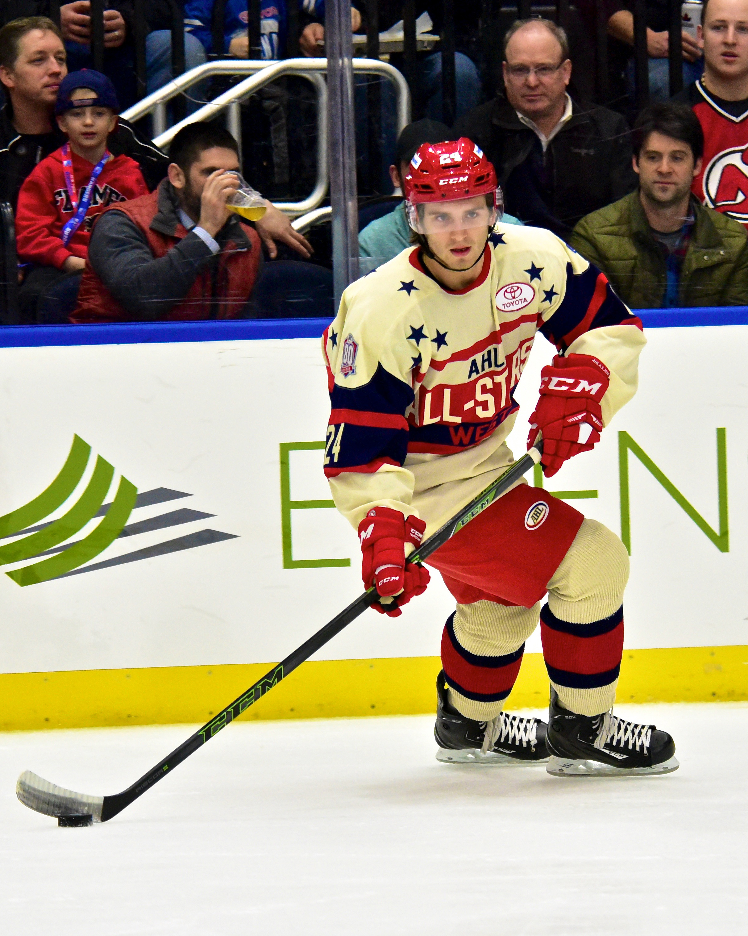 AHL All-Star Challenge Eastern Conference locker room at the War Memorial Arena in Syracuse, New York on Monday, February 1, 2016.